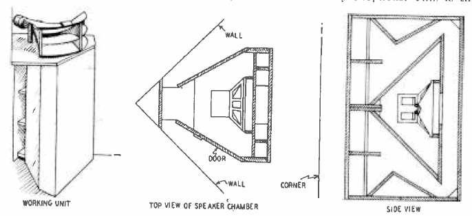 Drawing of the Klipschorn loudspeaker manufactured by Klipsch Audio Technologies from 1948. The Klipshorn is a high fidelity speaker system whose notable feature was its folded bass horn system, which is open at the back and is designed to use the walls and floor in the corner of a room as part of the horn structure, to achieve better bass response. The speaker is designed to be placed in the corner of the room.